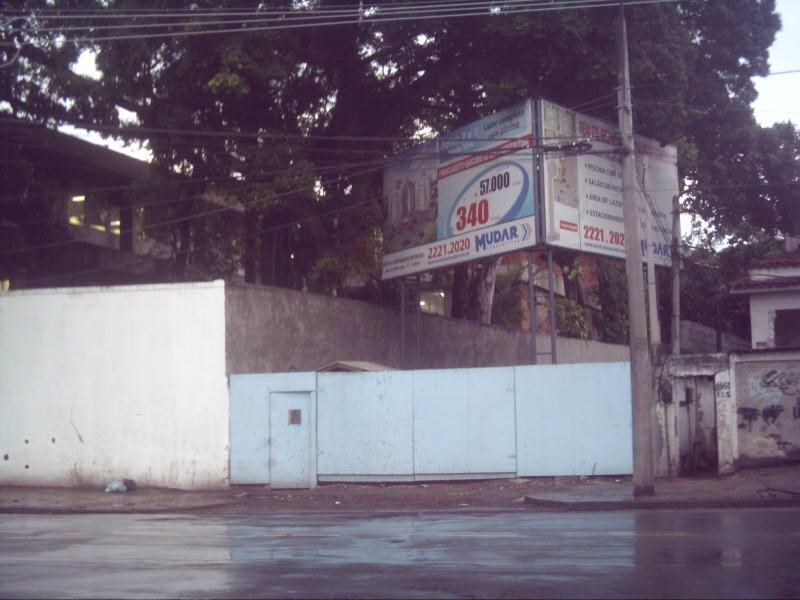 I'm not speak English, see Portuguese